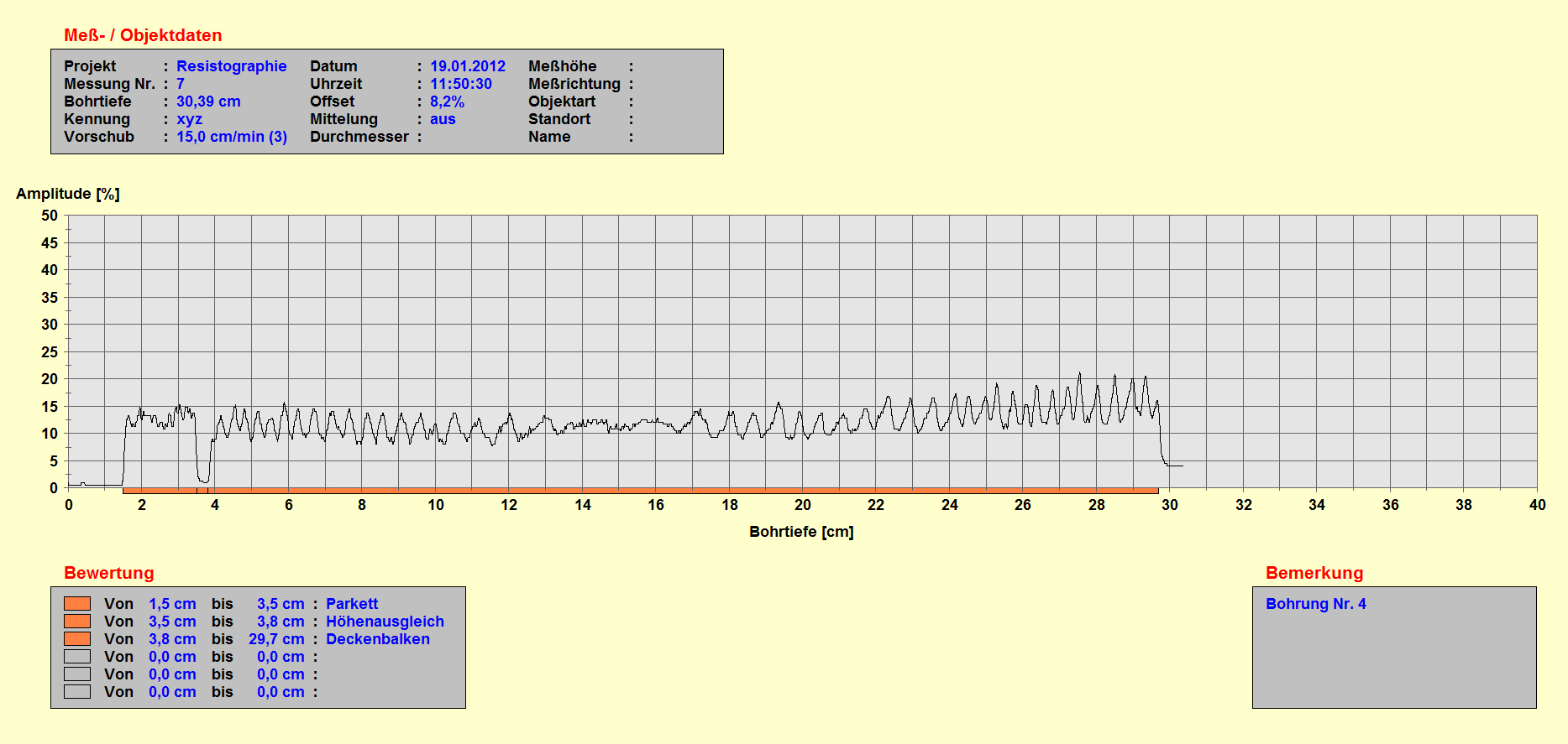 Building investigation by Resistograph